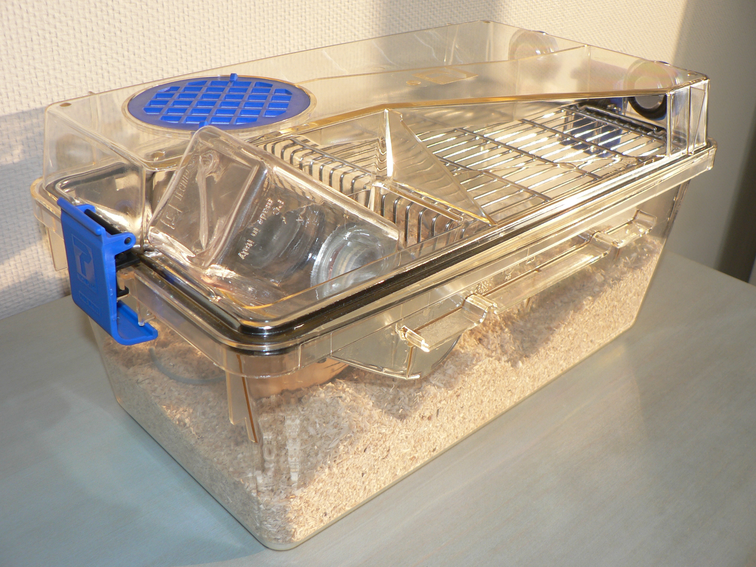 individually ventilated cage for lab mice (Tecniplast Sealsafe